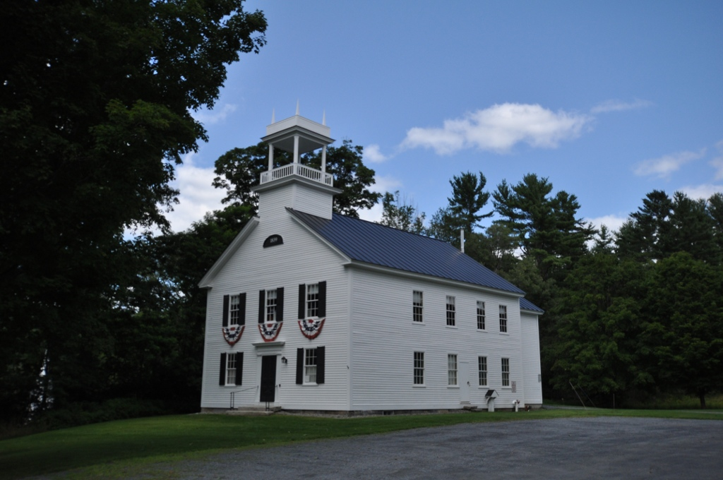 Lyme Center Academy, Lyme Center, NH; now a museum